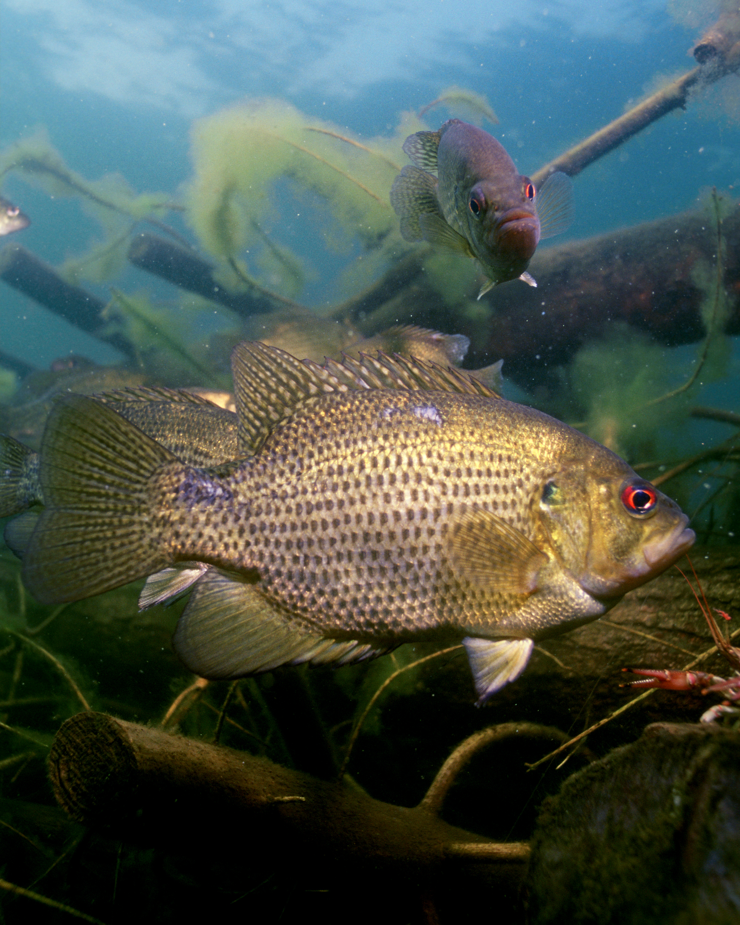 Rock bass (Ambloplites rupestris)